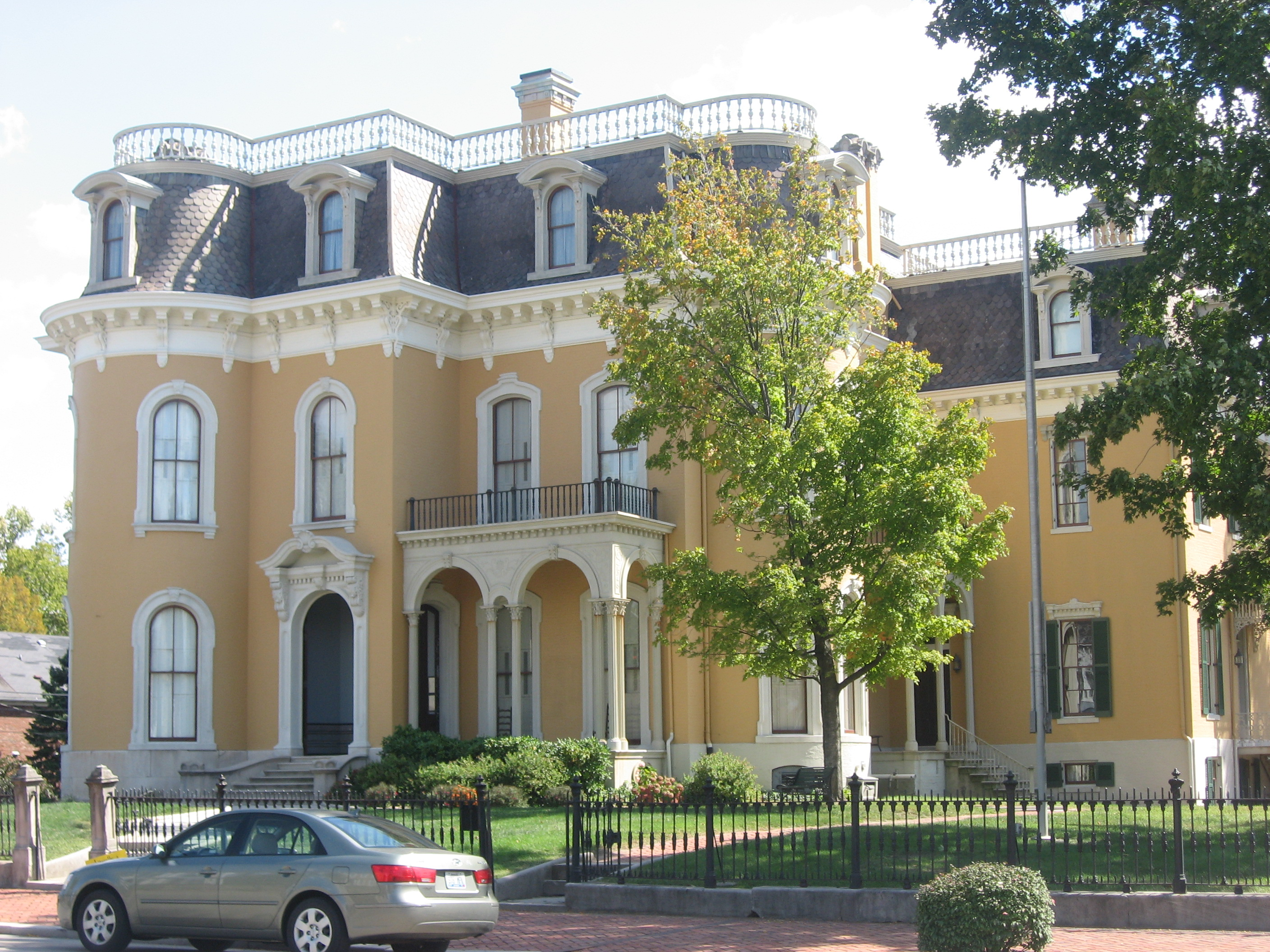 Front of the Culbertson Mansion, located at 914 E. Main Street (State Road 111) in New Albany, Indiana, United States. Built in 1868, it is listed on the National Register of Historic Places, and it is part of a Register-listed historic district, the Mansion Row Historic District.